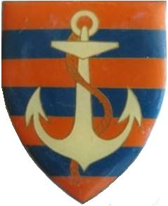 SADF era Hopetown Commando insignia